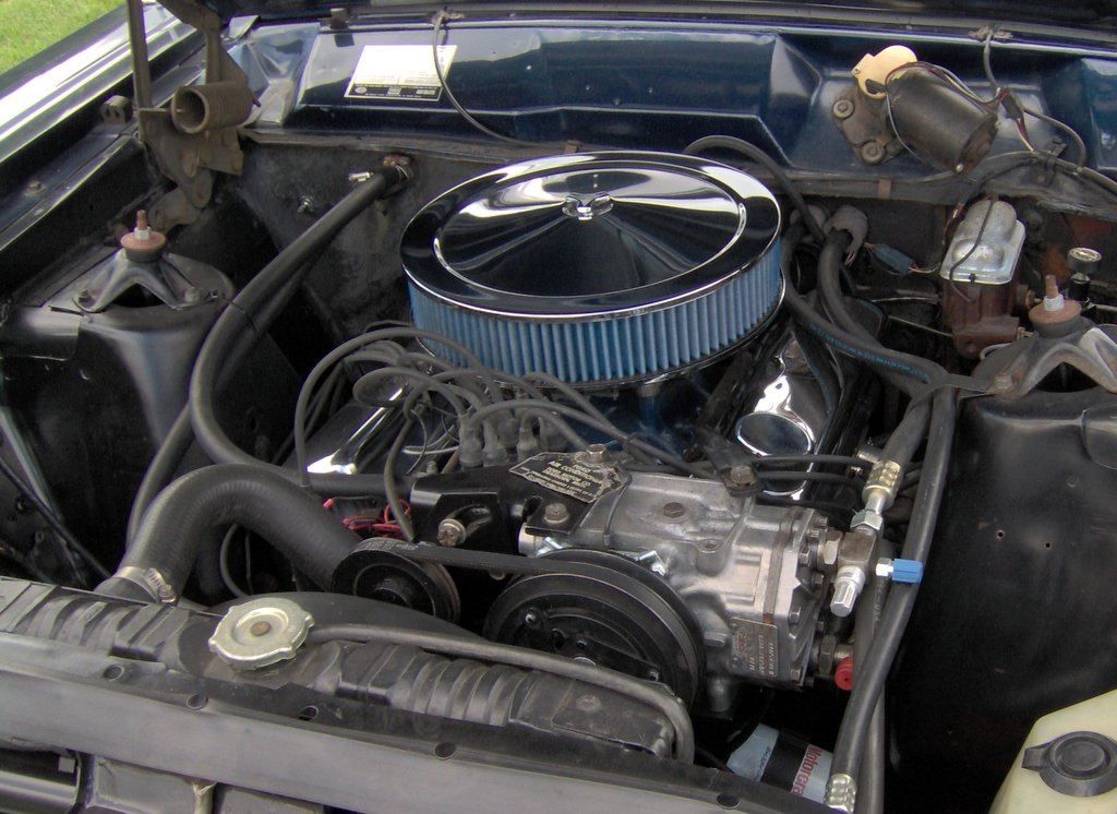 1967 Ford Galaxie 289 "Windsor" small-block V8 engine. Note the large air conditioning compressor mounted at the front of the block, still rare in the 1960s.